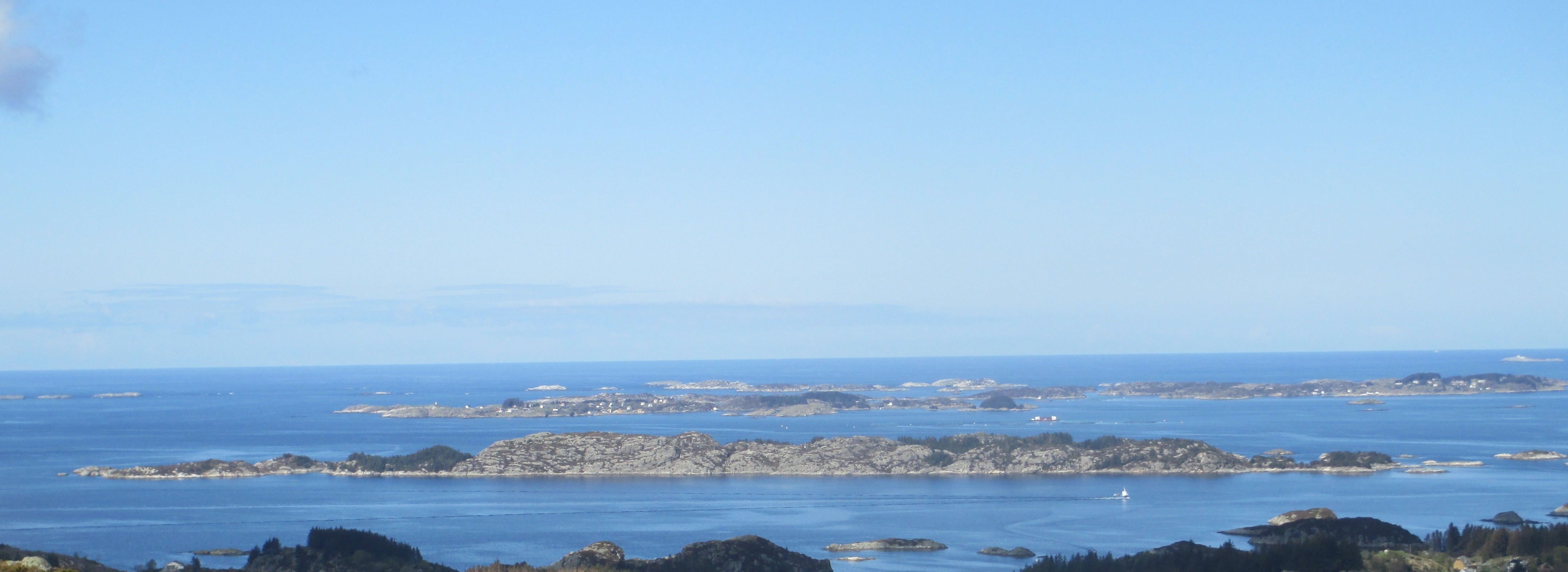 Islands in Austevoll, Norway. In foreground: Lunnøya. In background left: Litlekalsøy. In background right: Møkster. Photograph taken from Kongsfjellet on Selbjørn.